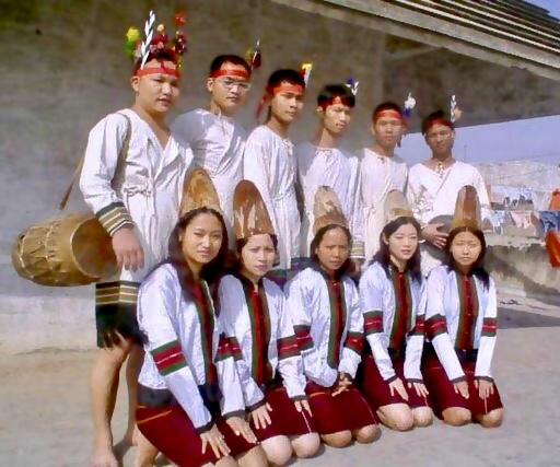 Photograph by self